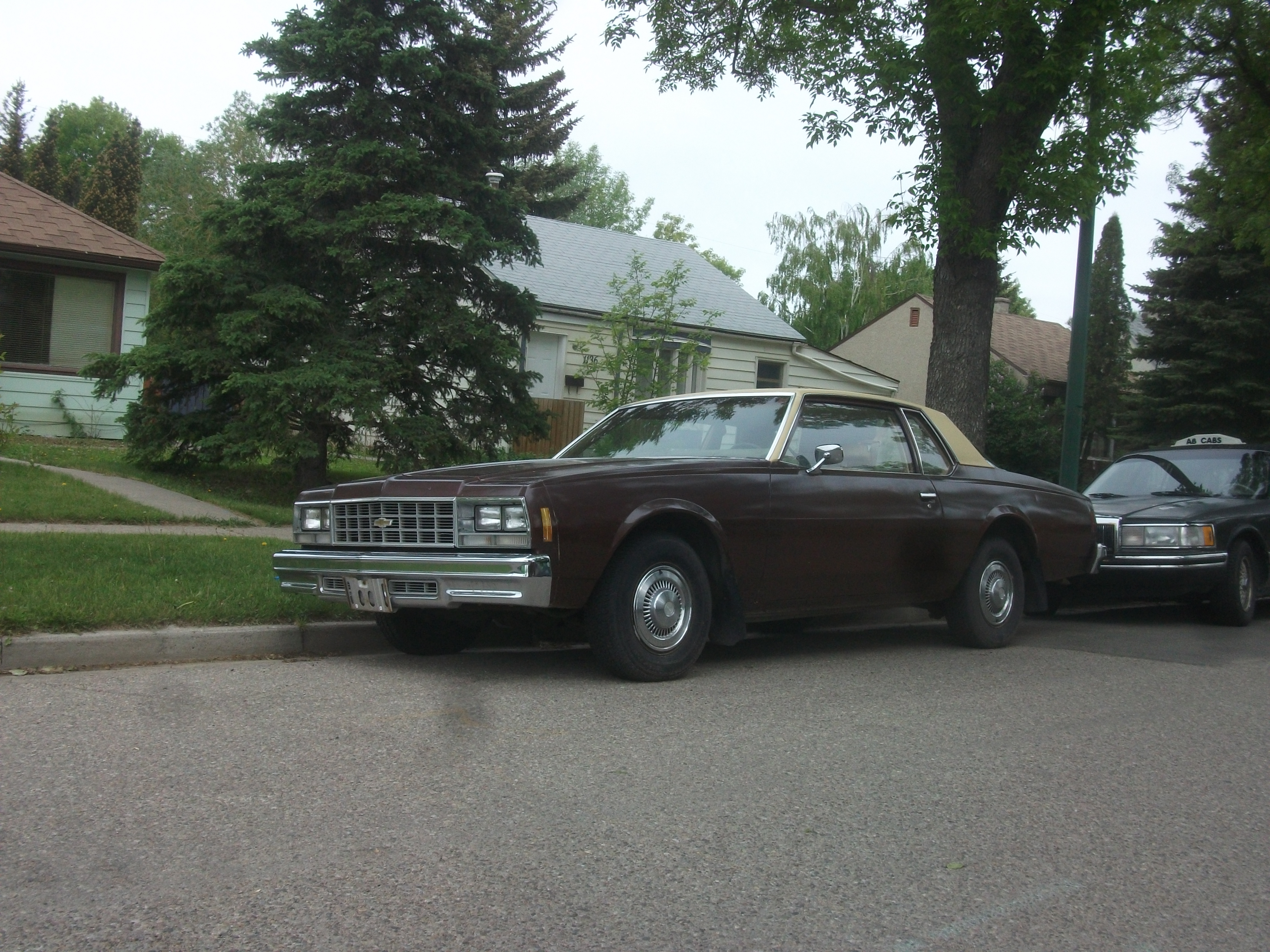 I believe this two door is a Chevrolet Belair rather than a Caprice or Impala. Base model for Canada only. Late 70s? Looks pretty nice with the brown body and lighter roof.